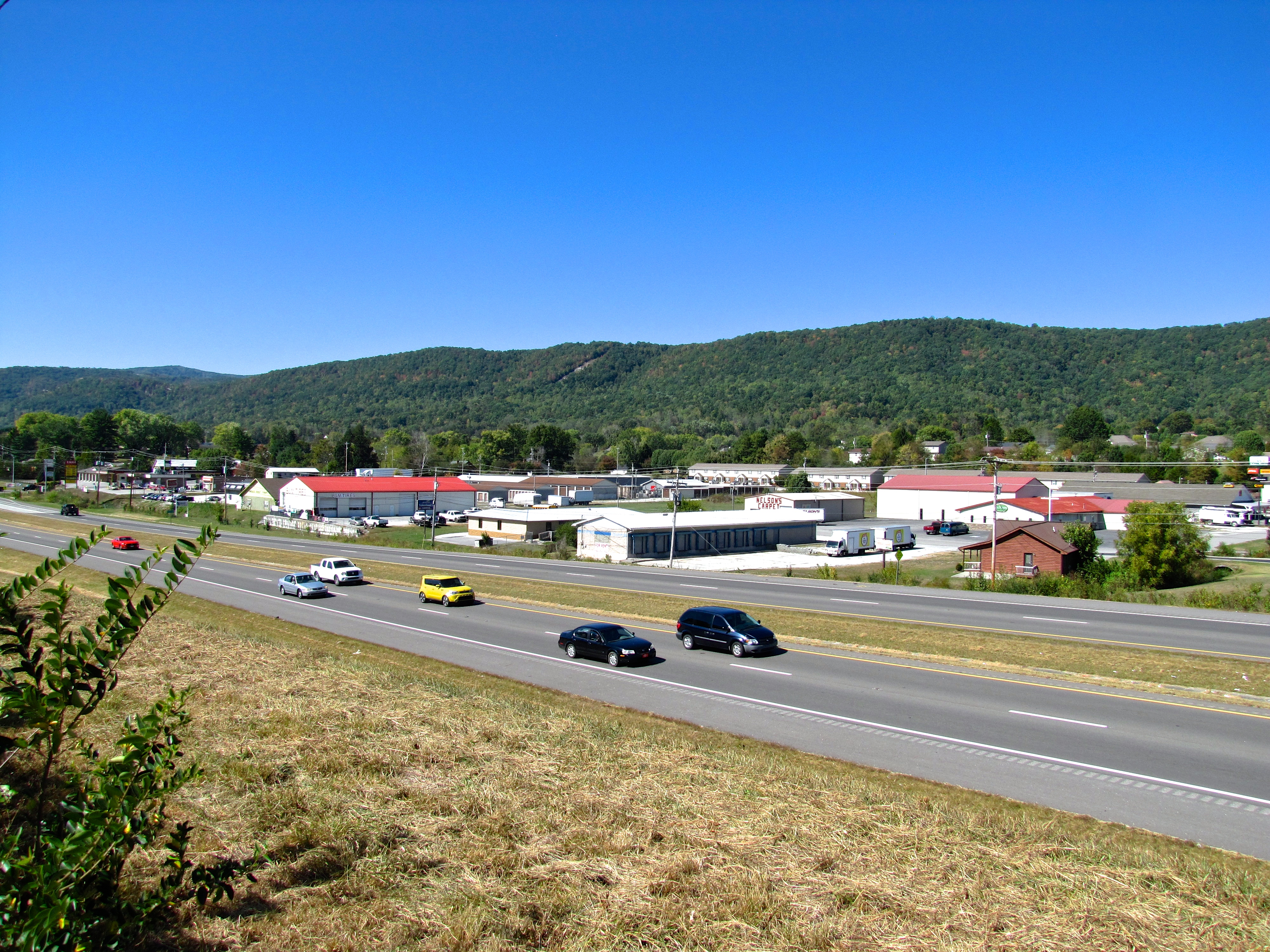 U.S. Route 25W in Jacksboro, Tennessee, United States.